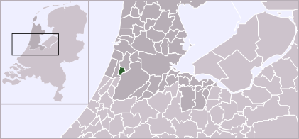 Locator map of Dutch municipalities in Noord-Holland (LocatieHeemstede.png)